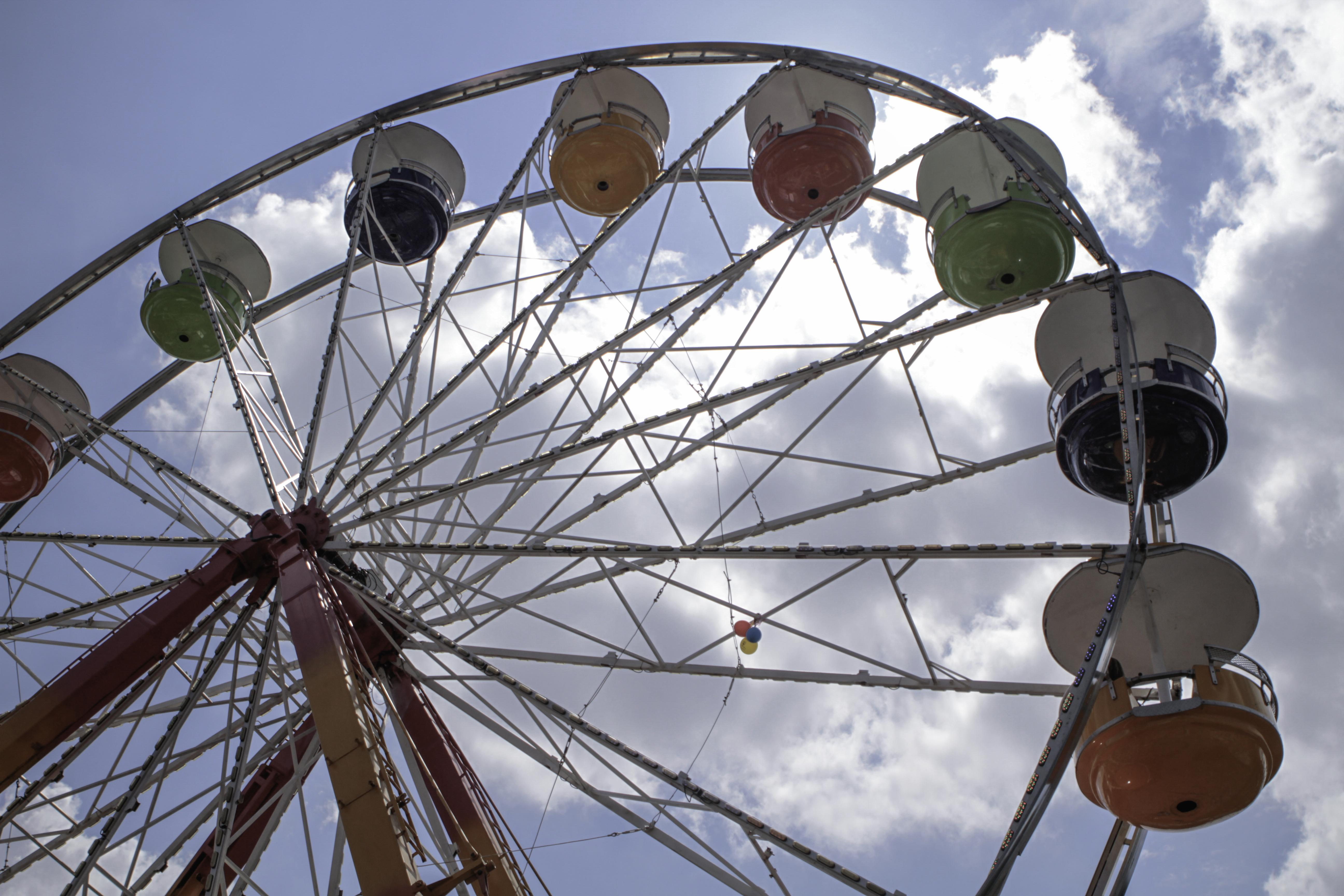 2014 Country Fair in Knoxville.